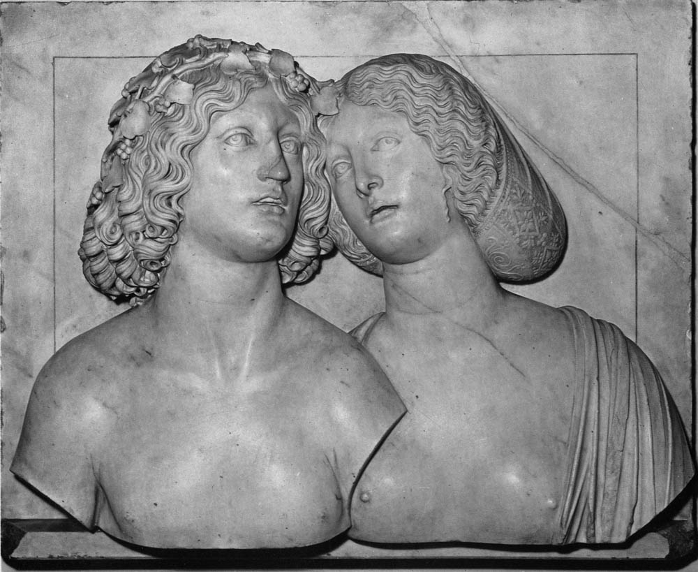 Bacchus and Arianna.